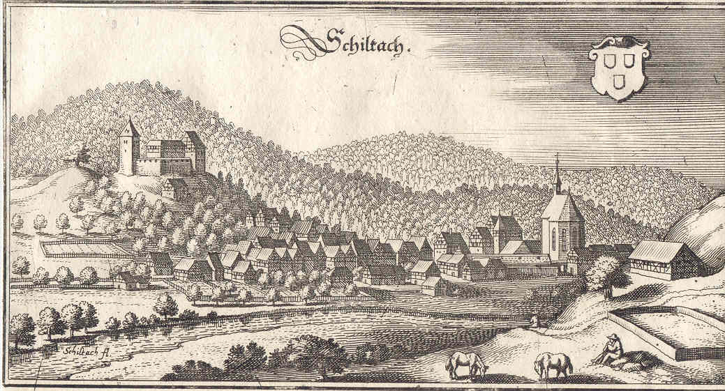 Old View of Schiltach from Matthäus Merian 1643